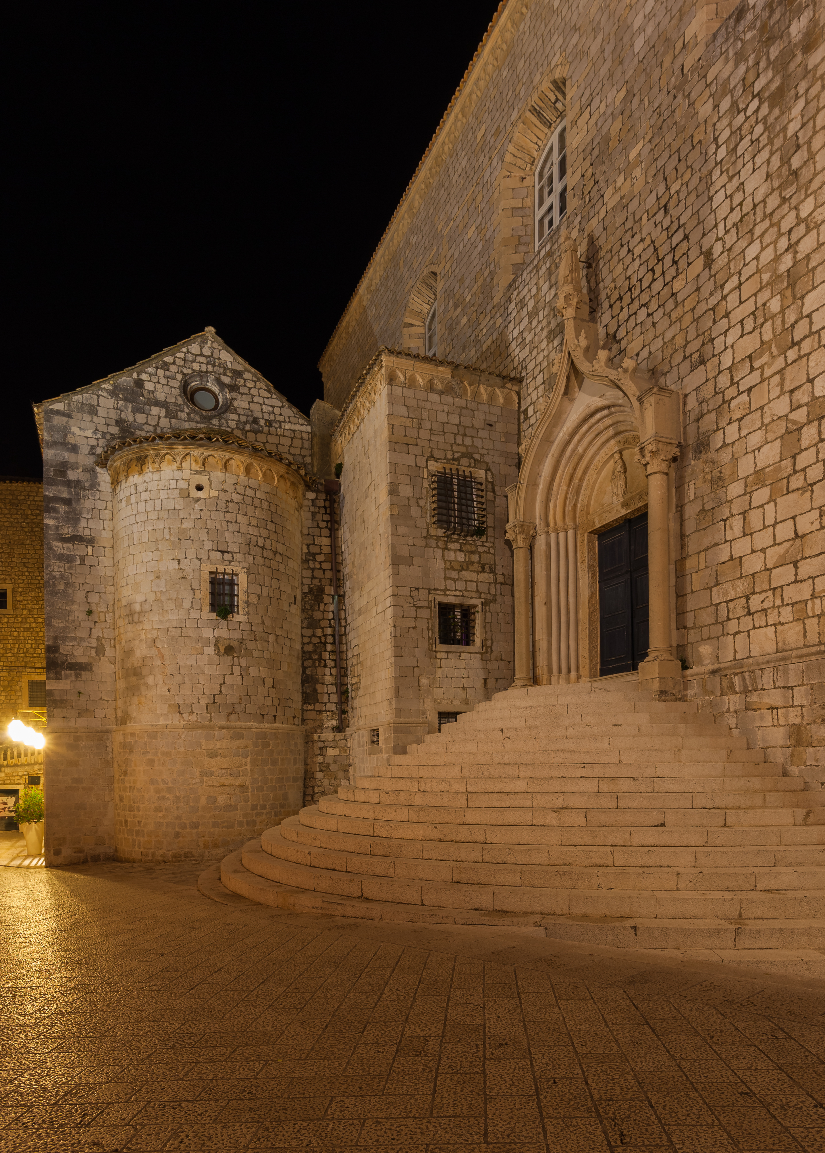 Dominican Church and Monastery, old city of Dubrovnik, Croatia